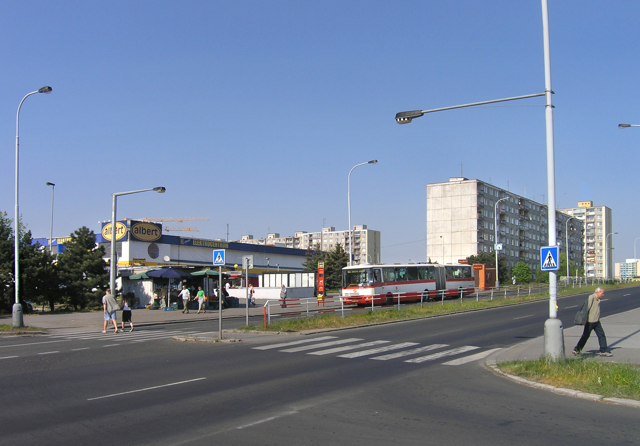 Shopping center at Lhotka housing estate, Prague